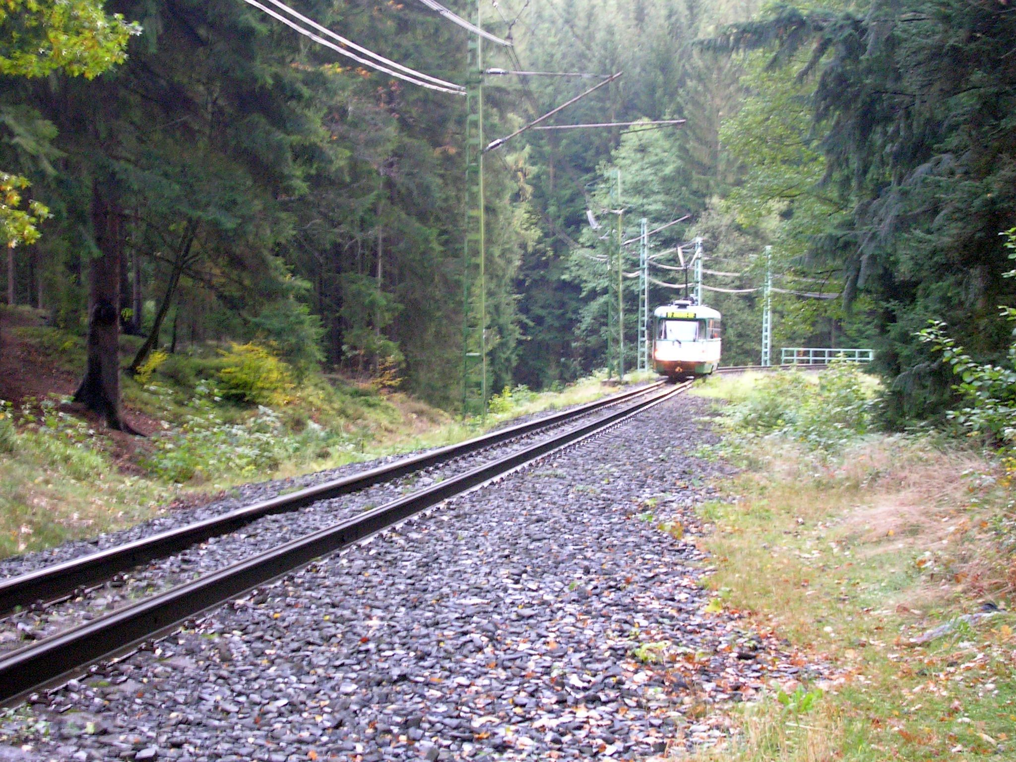 Tramway line between Liberec and Jablonec. Tram near the stop "Jablonec nad Nisou, Měnírna".